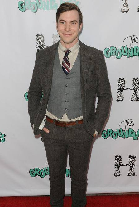 Chris Eckert at Groundlings 40th Anniversary